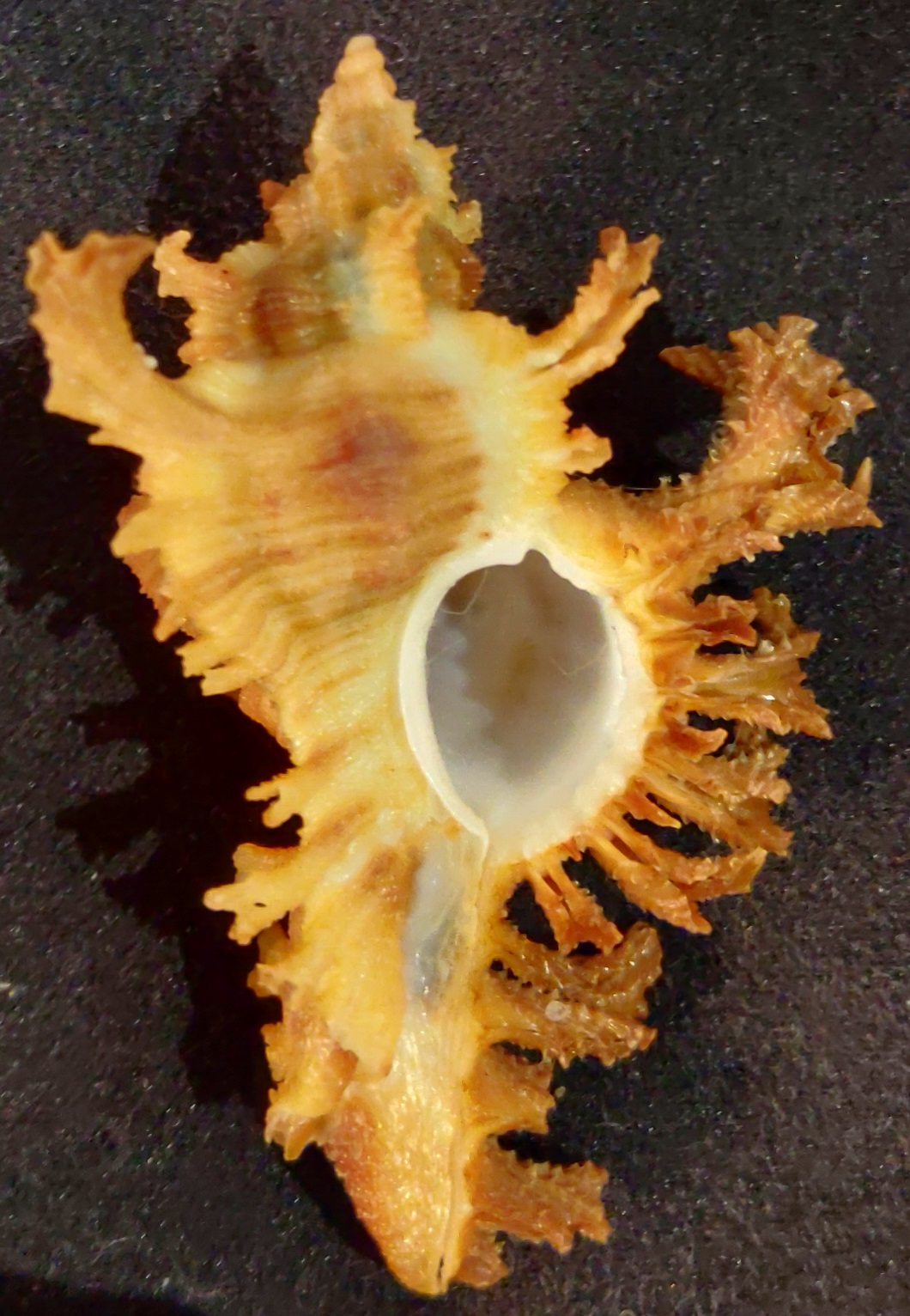 chicoreus banksii crocatus frontside